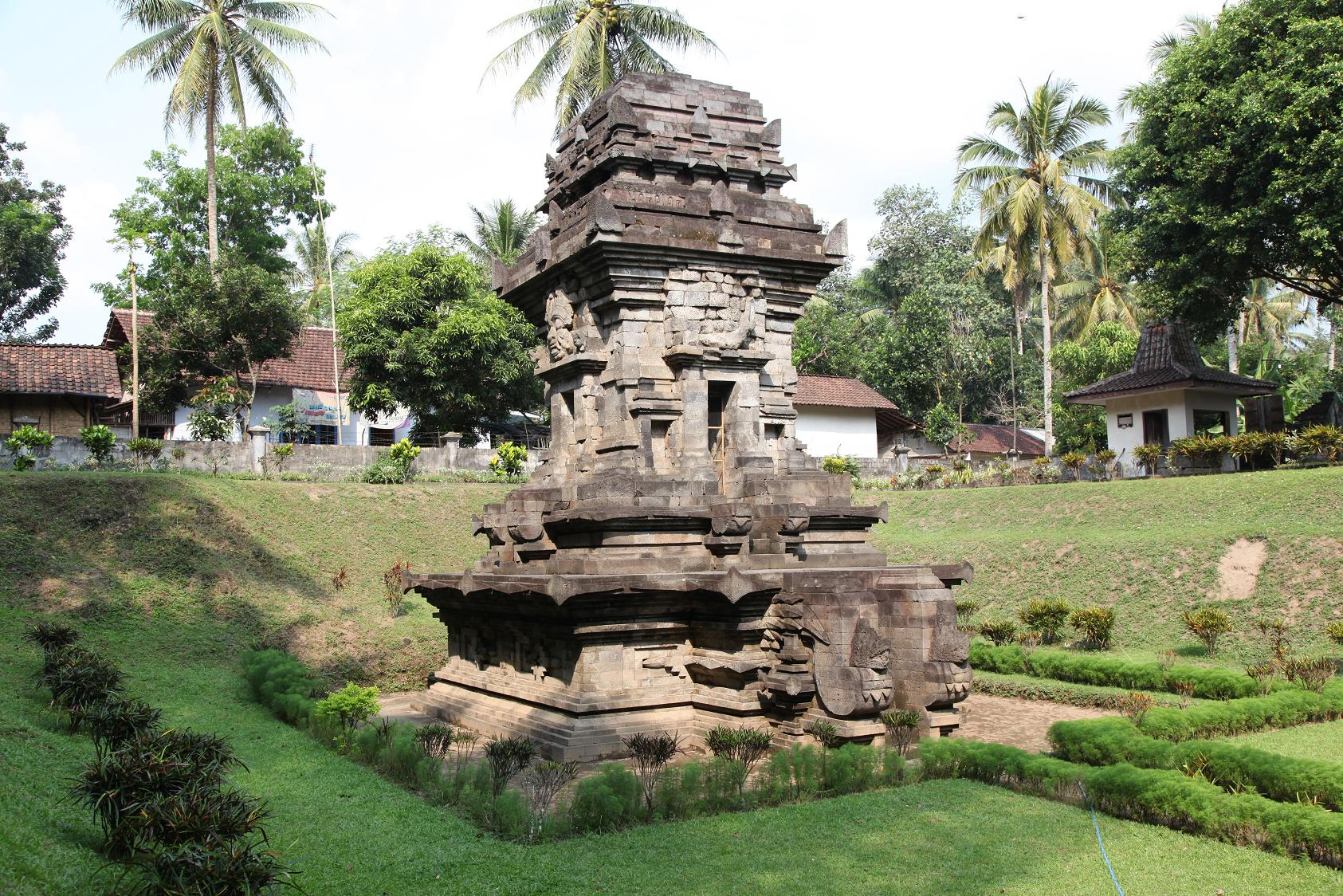 Candi Sawentar (Sawentar Temple)